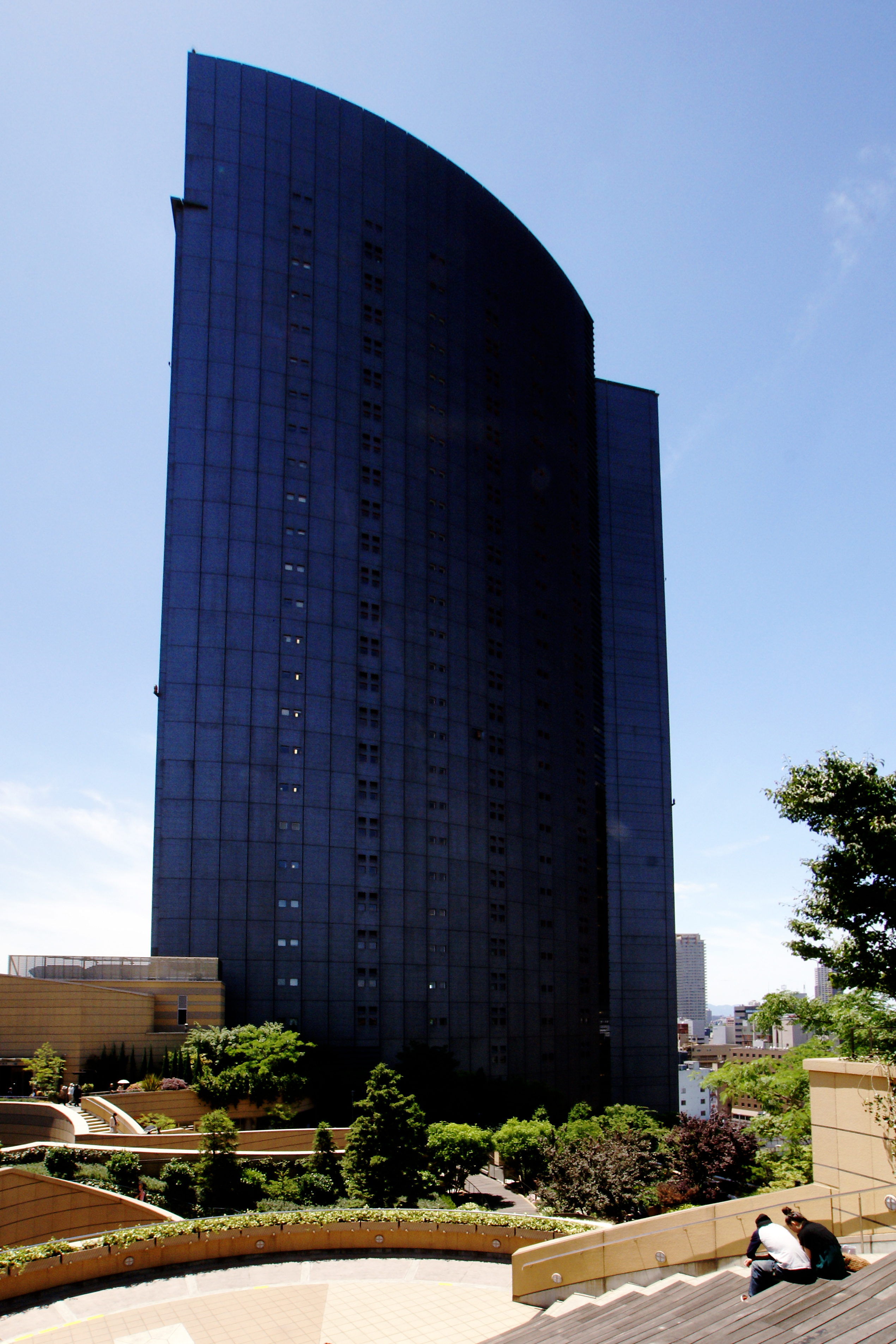 At Namba Parks in Osaka, Osaka prefecture, Japan